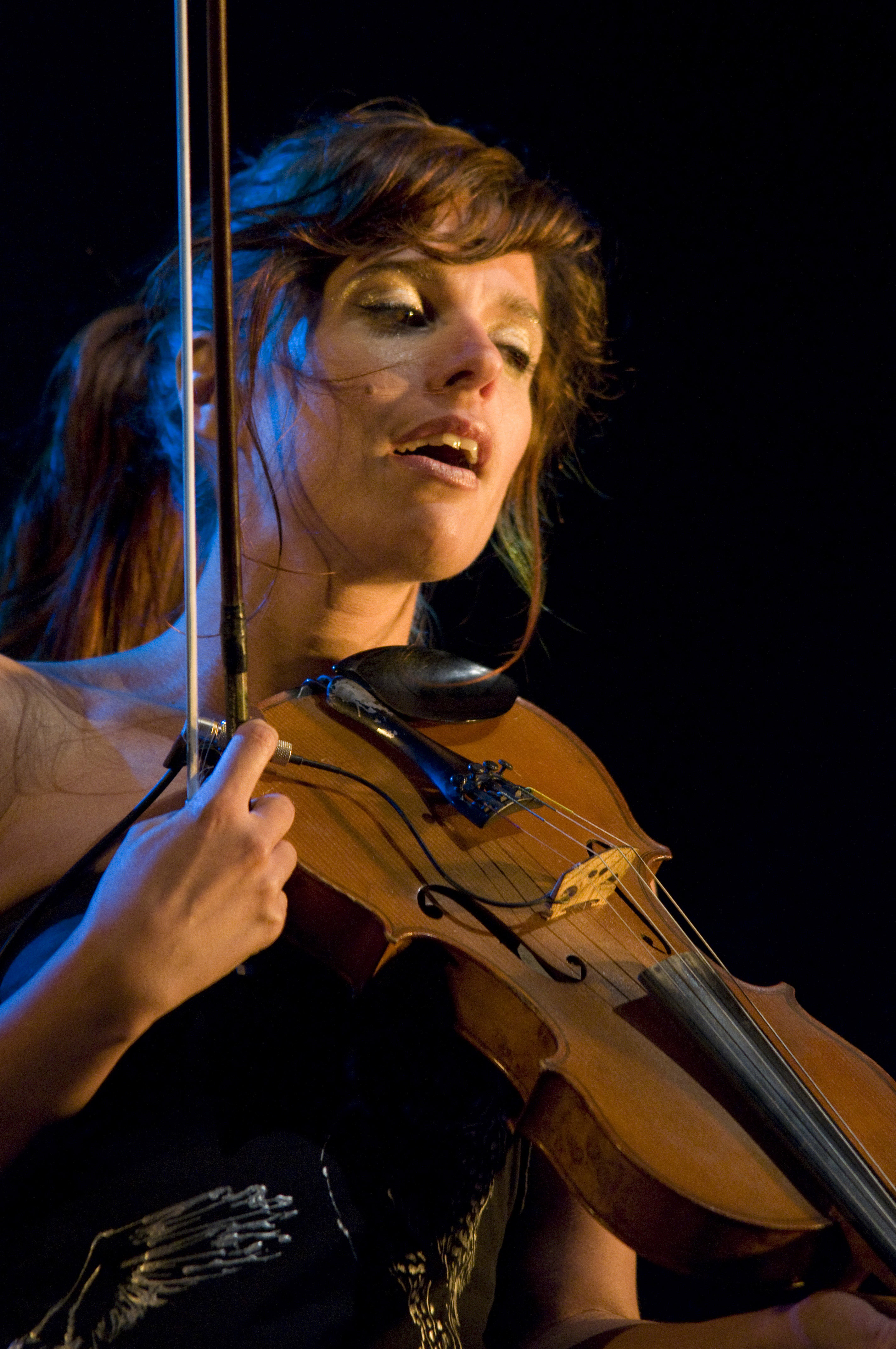 Dionysos live at Aux Zarbs festival 2008 (Auxerre, France).